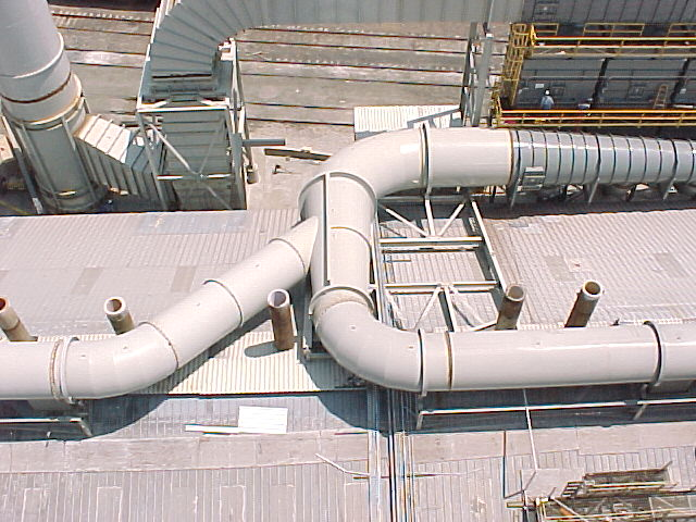 This illustrates how separate ducts come together